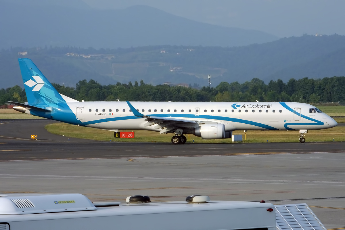 Air Dolomiti, I-ADJQ, Embraer E-195LR at Orio al Serio International Airport.